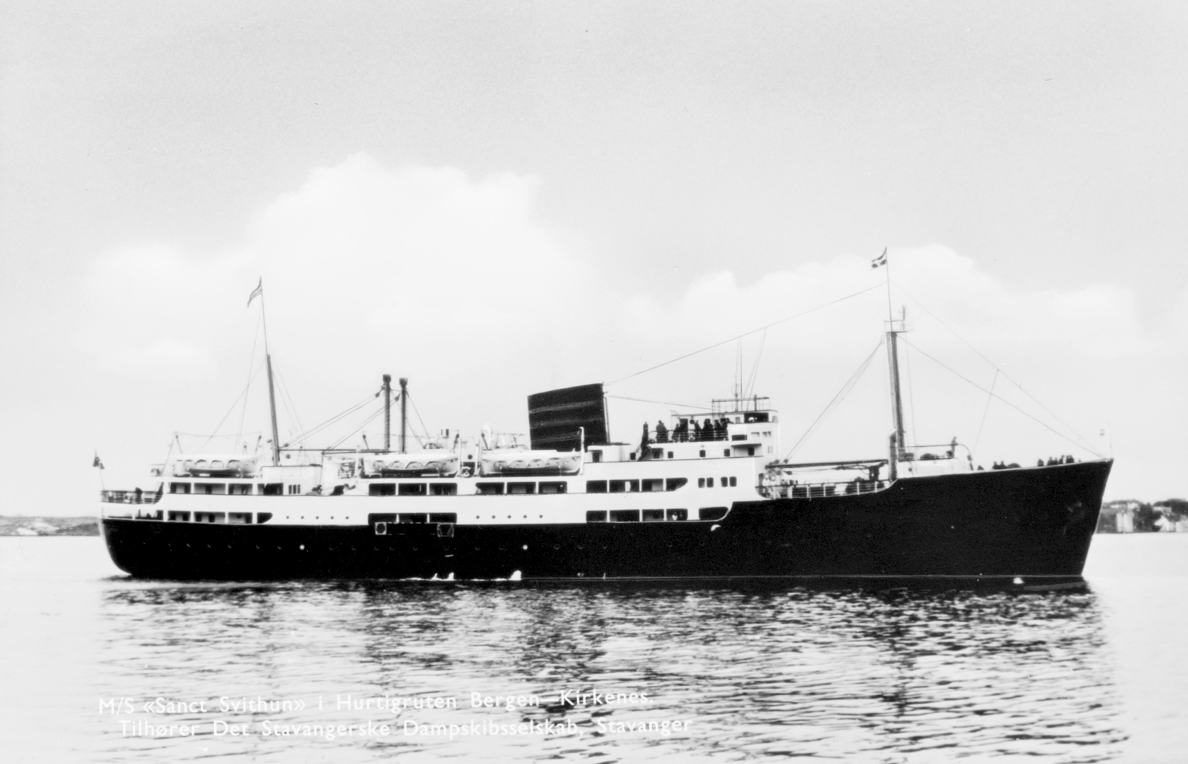 Norwegian Hurtigruten ship MS Sanct Svithun (1950).